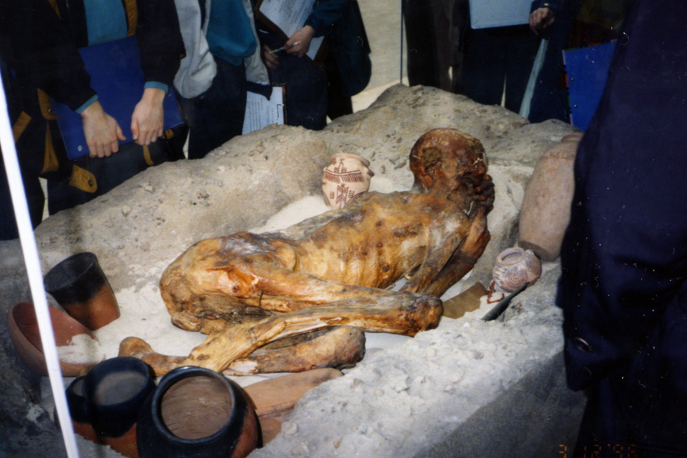 The British Museum is an amazing collection of artifacts from around the world - primarily because of the British once having had a world-spanning empire and having helped themselves to artifacts from its colonies. This mummy, like many others, is Egyptian. However, unlike the royal mummies which were meticulously prepared in a very respectful manner, this is a burial of a commoner, never meant to be mummified. The corpse was mummified primarily through the dry desert conditions and the resulting dessication.